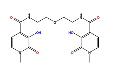 Figure 3